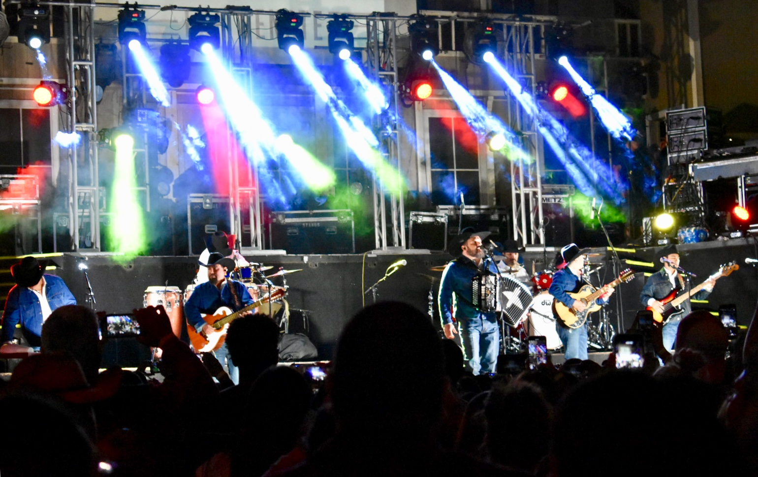 Intocable performing at Beto Event in San Antonio 23 Oct 2018